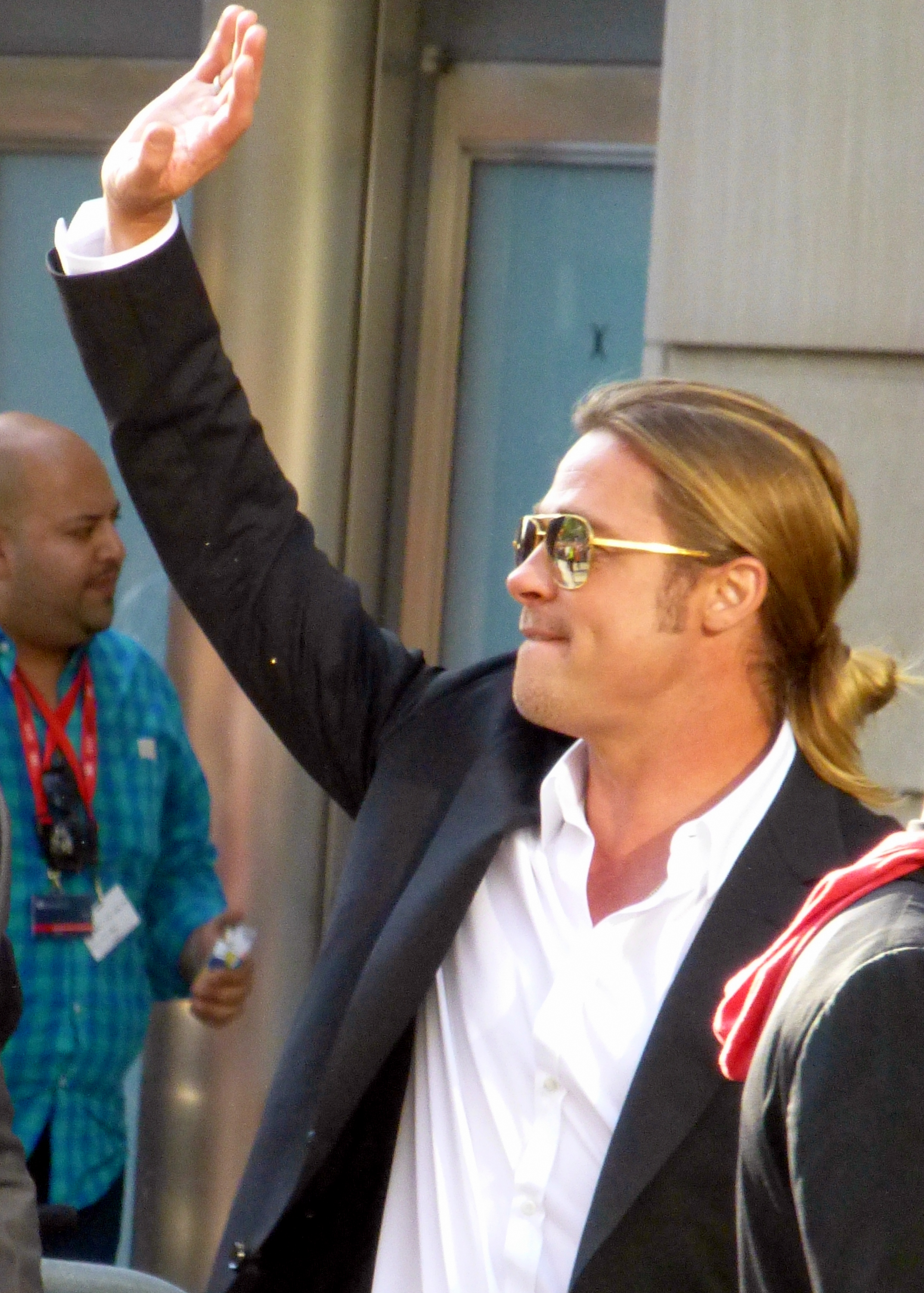 Brad Pitt waving at the premiere of 12 Years a Slave, 2013 Toronto Film Festival